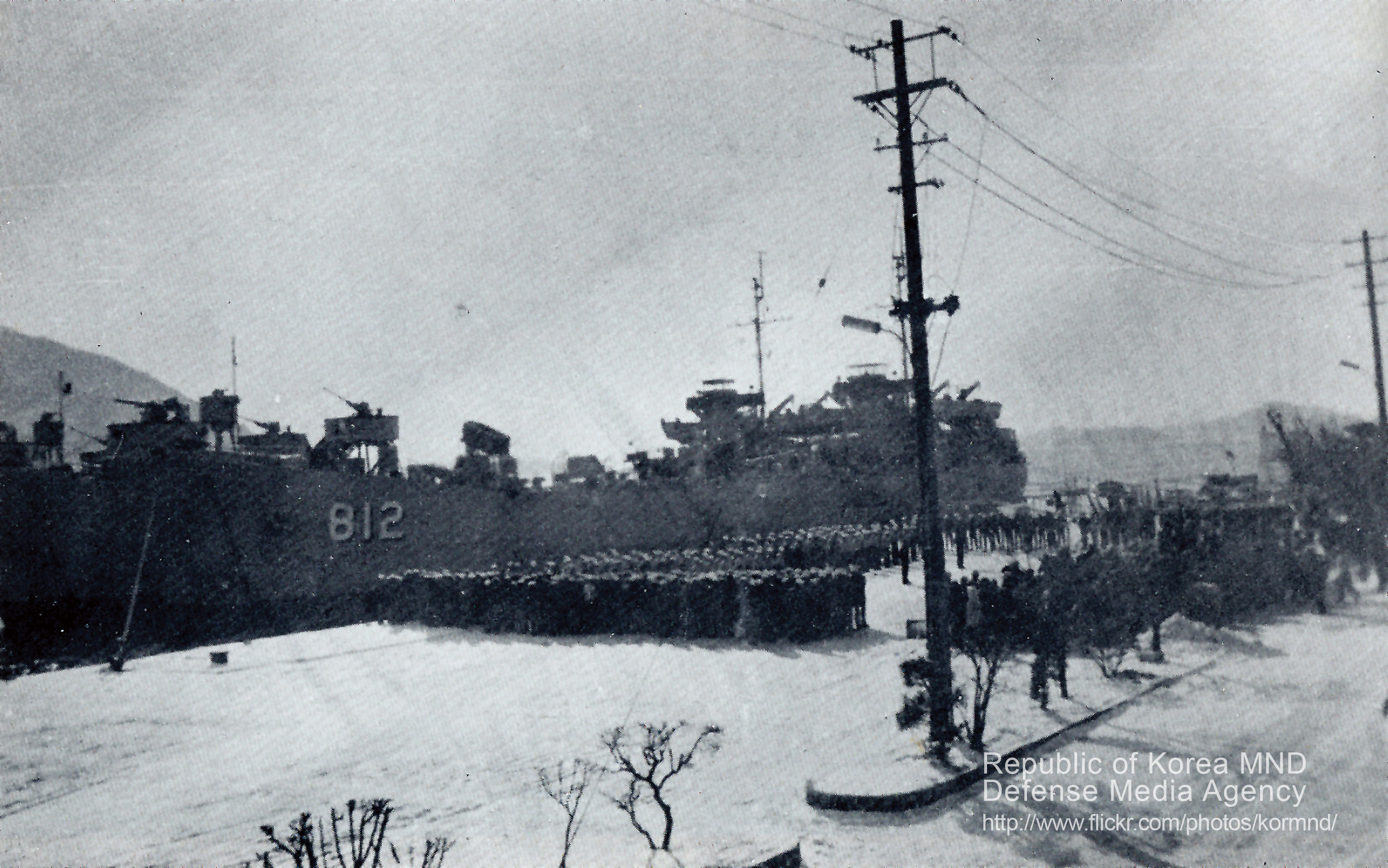 2008 국방화보 Rep. of Korea, Defense Photo Magazine 1965년 3월 4일 최초로 파월하는 LST 812함 The LST 812 of Korean Navy sent to Viet Nam for the first time on March 4, 1965